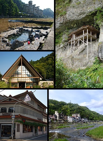 Misasa montage